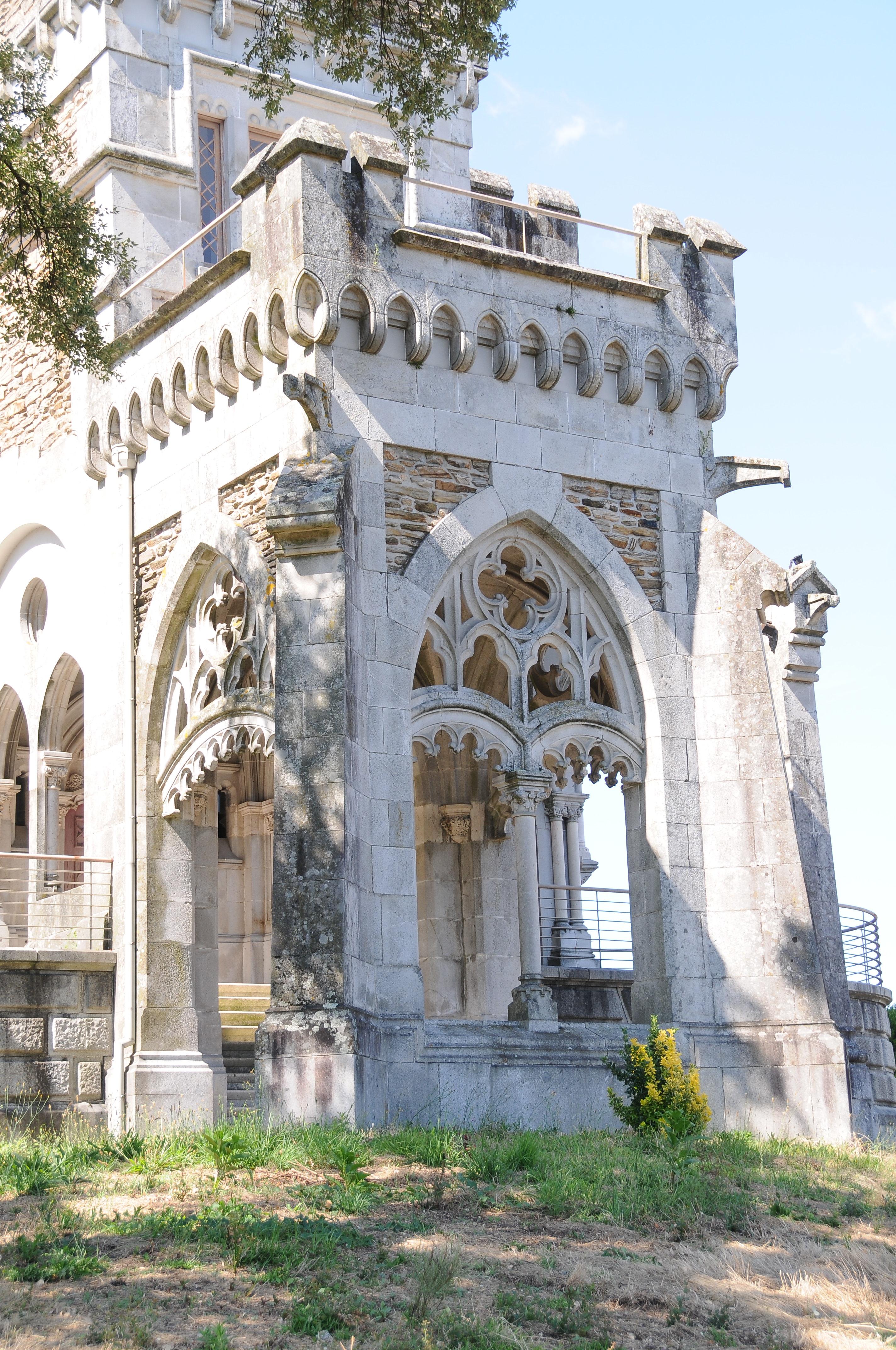 Dona Chica Castle in Braga, Portugal